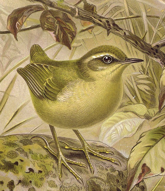 Xenicus gilviventris, Pīwauwau, South Island Wren, known in New Zealand as the Rock Wren. Endemic to New Zealand.